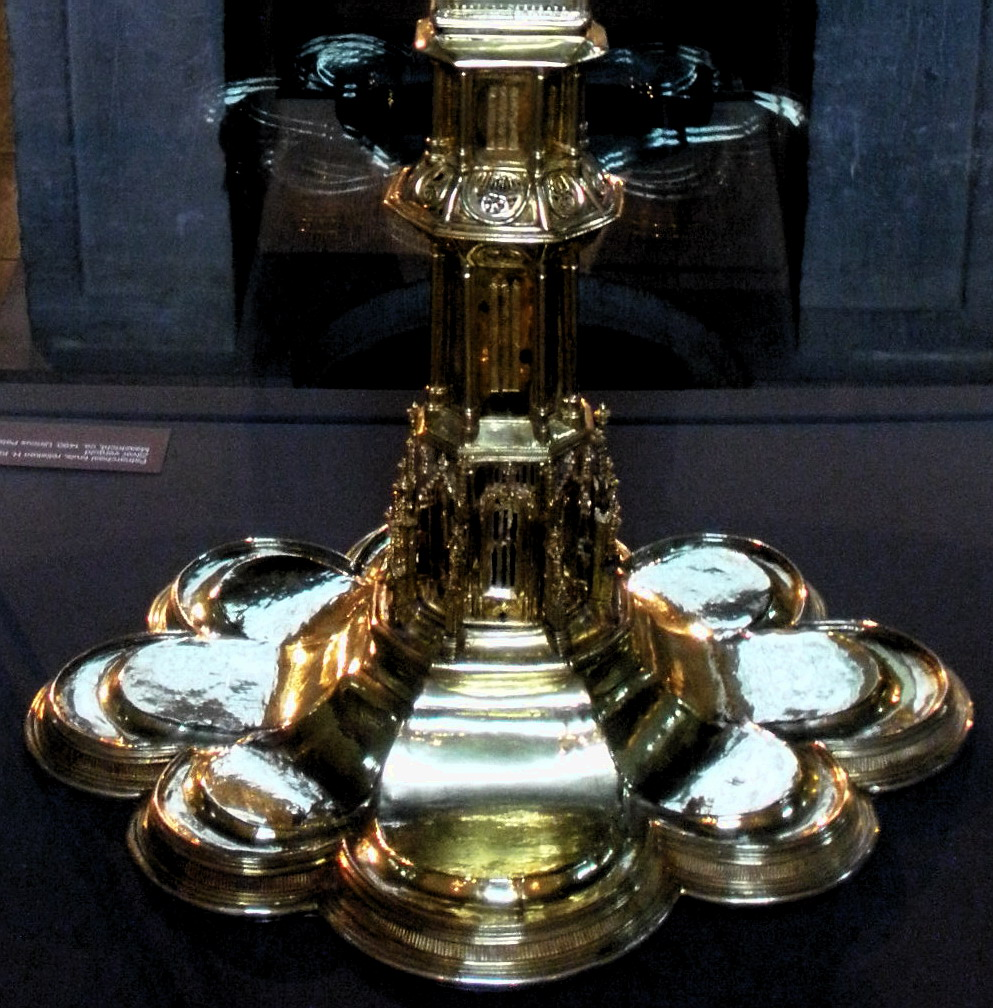 Patriarchal cross (silver) with particles of the True Cross, in the Treasury of the Basilica of Saint Servatius, Maastricht, the Netherlands. Detail of the foot of the cross.The Maastricht/Nurnberg silversmith Master Ulrich Peters who received the order for this cross ca.1490 may have only done the foot.